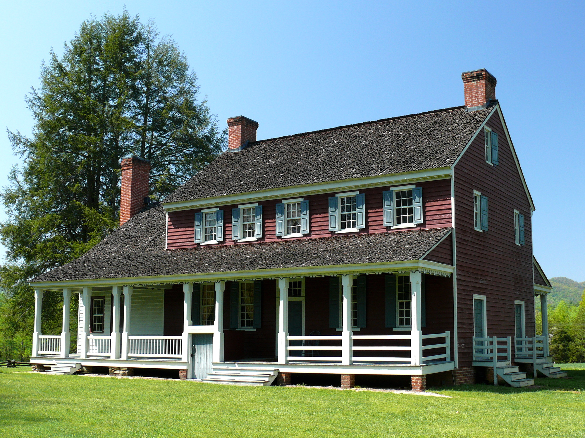 Continental Army General William Lenoir settled in the Yadkin River Valley of North Carolina after the American Revolutionary War. In 1792 he built a plantation house he called Fort Defiance. The nearby town of Lenoir was named in his honor. Today, the mansion has been fully restored and serves as a historical site and tourist attraction. Credits Photo taken with a Panasonic Lumix DMC-FZ50 in Caldwell County, NC, USA.